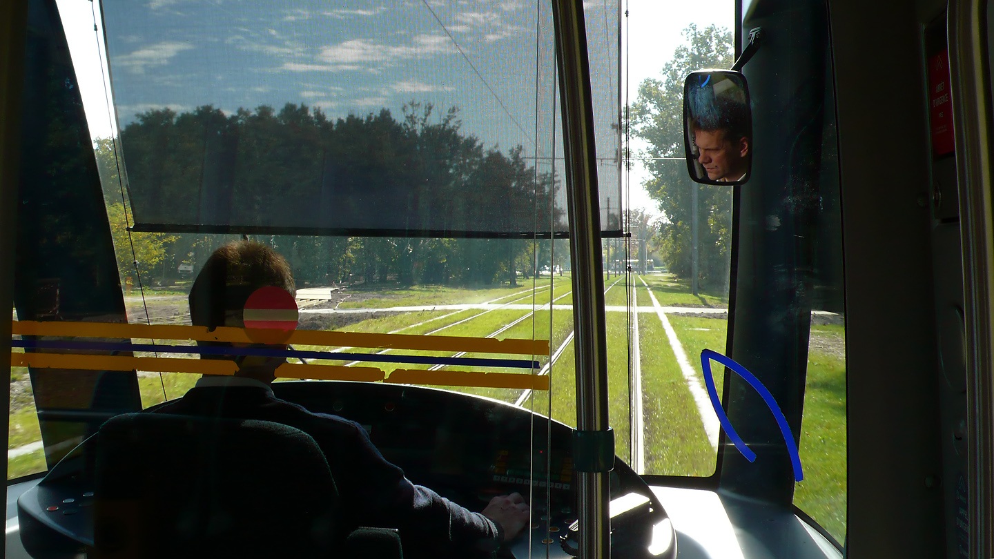 A Citadis 402 of Line B on grassy track